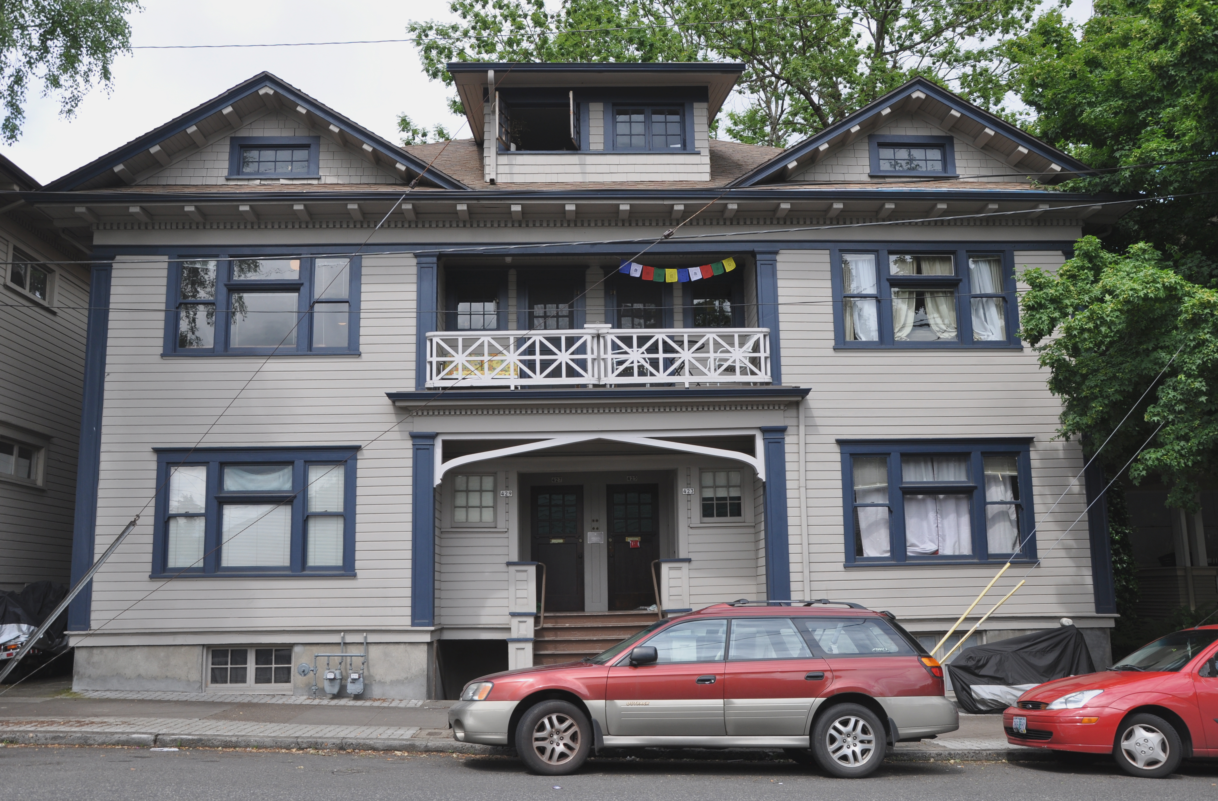 Martin Parelius Fourplex in Portland in the U.S. state of Oregon. The structure is listed on the National Register of Historic Places.